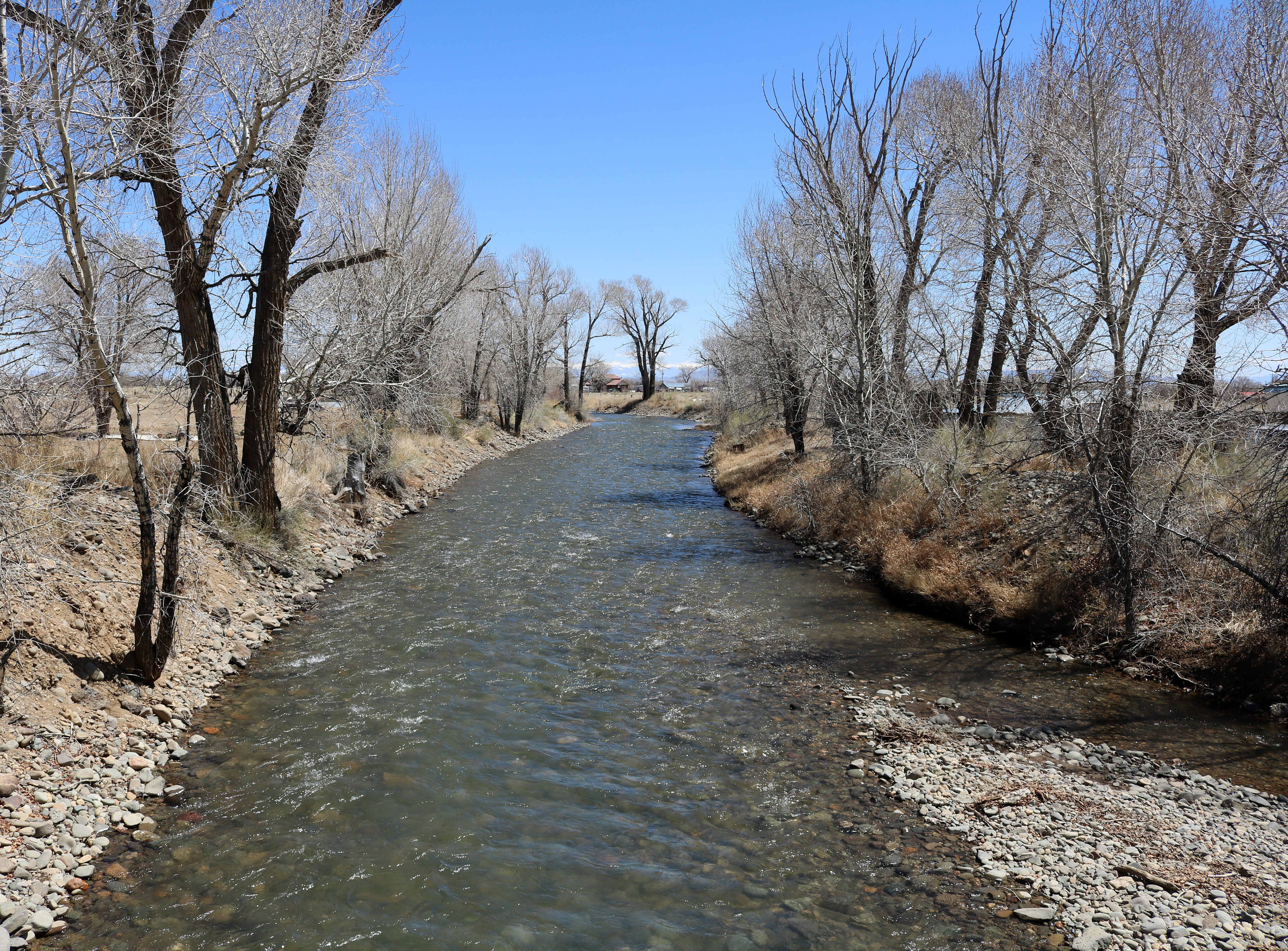 The Alamosa River in Capulin, Colorado. The view is from a bridge over the river on Conejos County Road 8. The view is to the east.